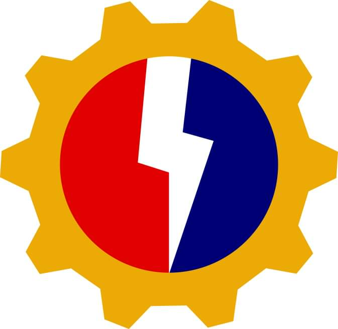 Logo of National College of Asuncion